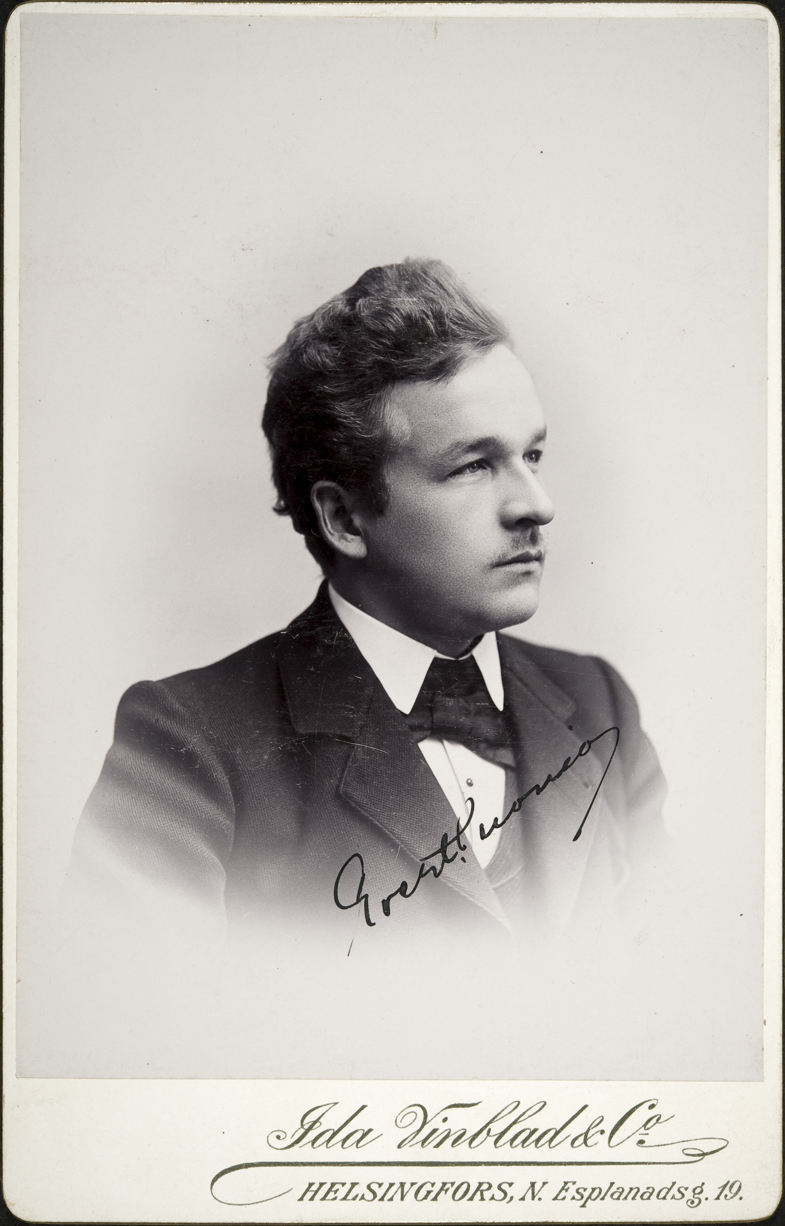 Photograph of the Finnish actor Evert Suonio (1871–1934).